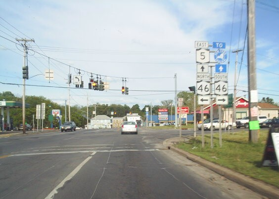 New York State Route 5 eastbound at New York State Route 46 in Oneida.